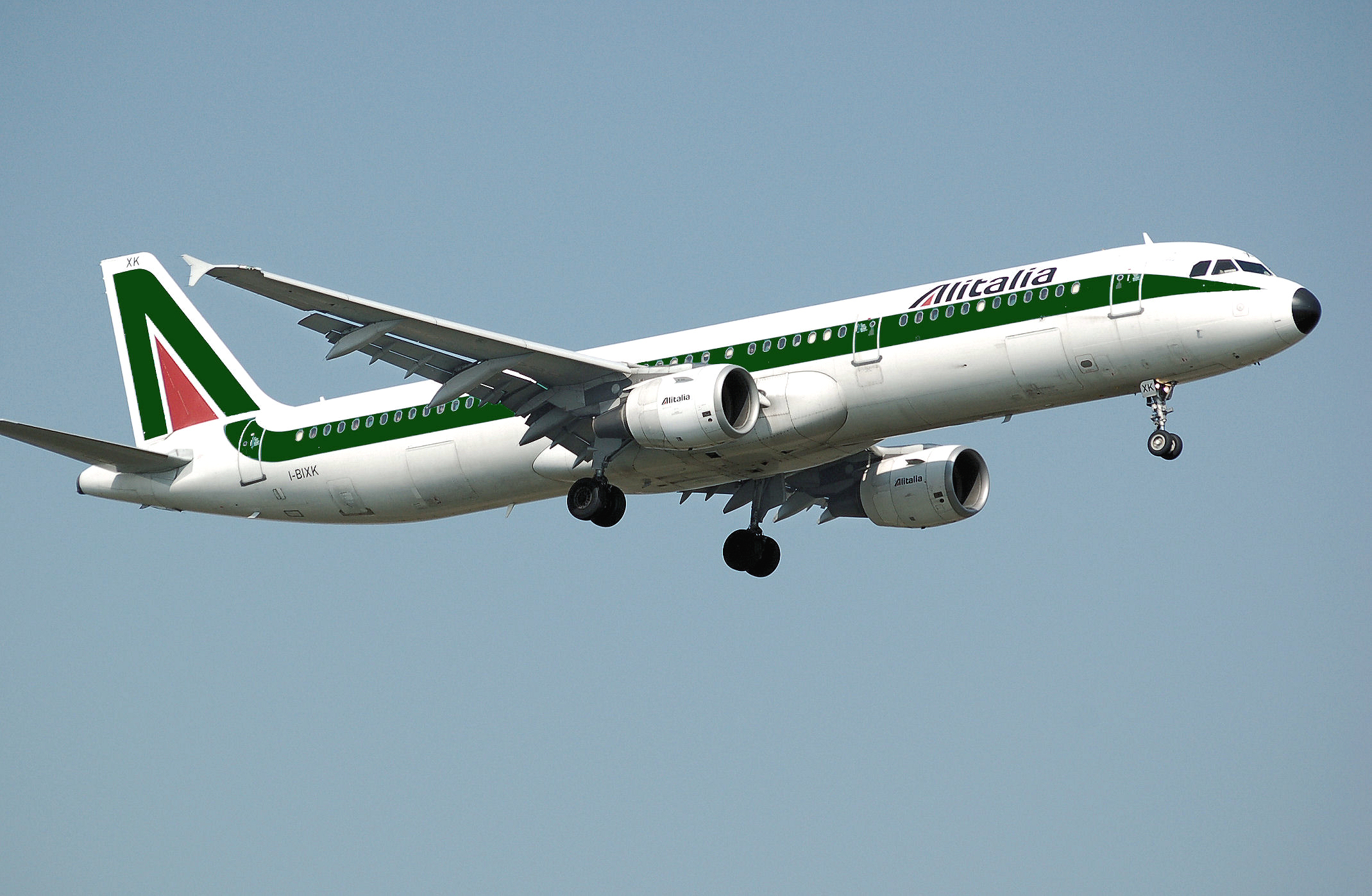 Alitalia Airbus A321-100 (I-BIXK) landing at London Heathrow Airport.